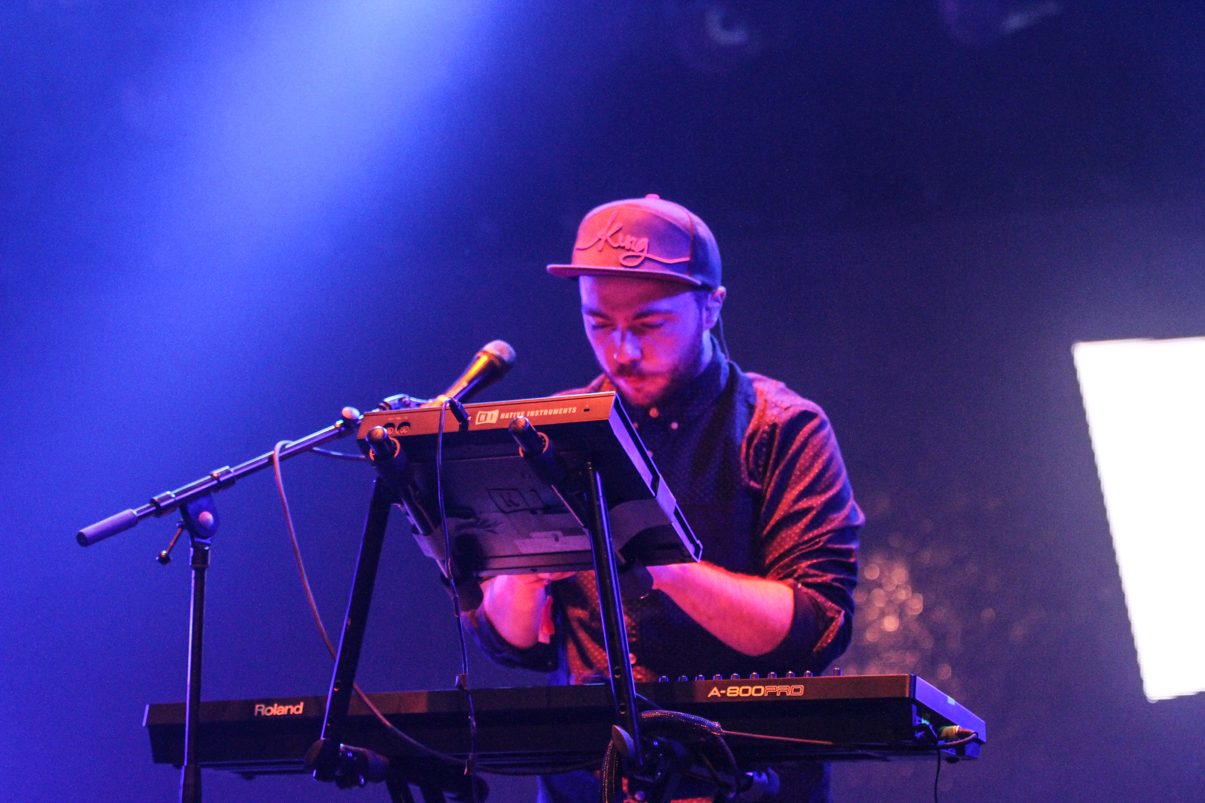 Chvrches performing at Melt! Festival 2013